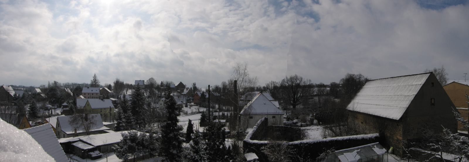 Panorama view on the snowy Graupzig